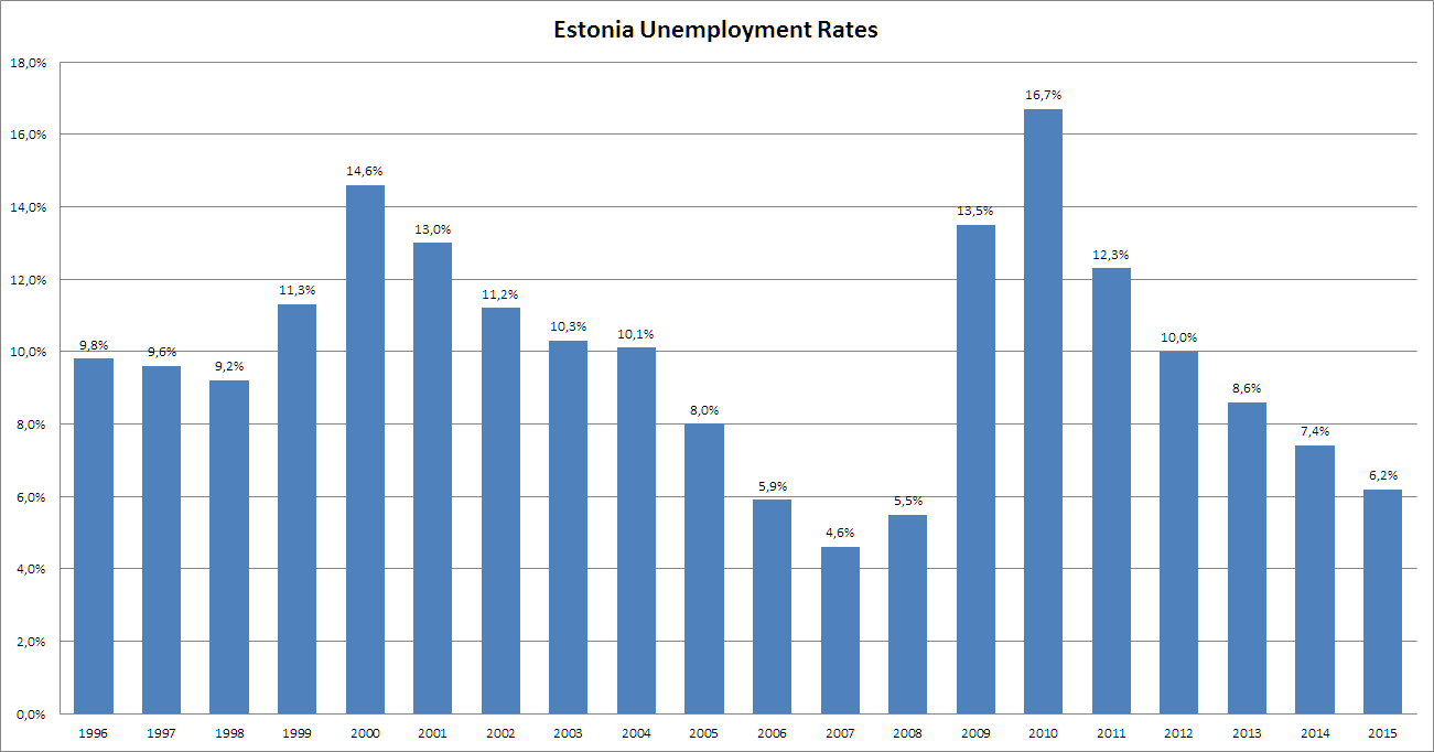 Unemployment rates of Estonia